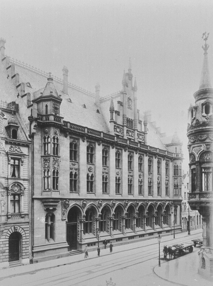 Reichsbank&Landeszentralbank, Unter Sachsenhausen 1-3, Köln, um 1900 (rba_mf044997)